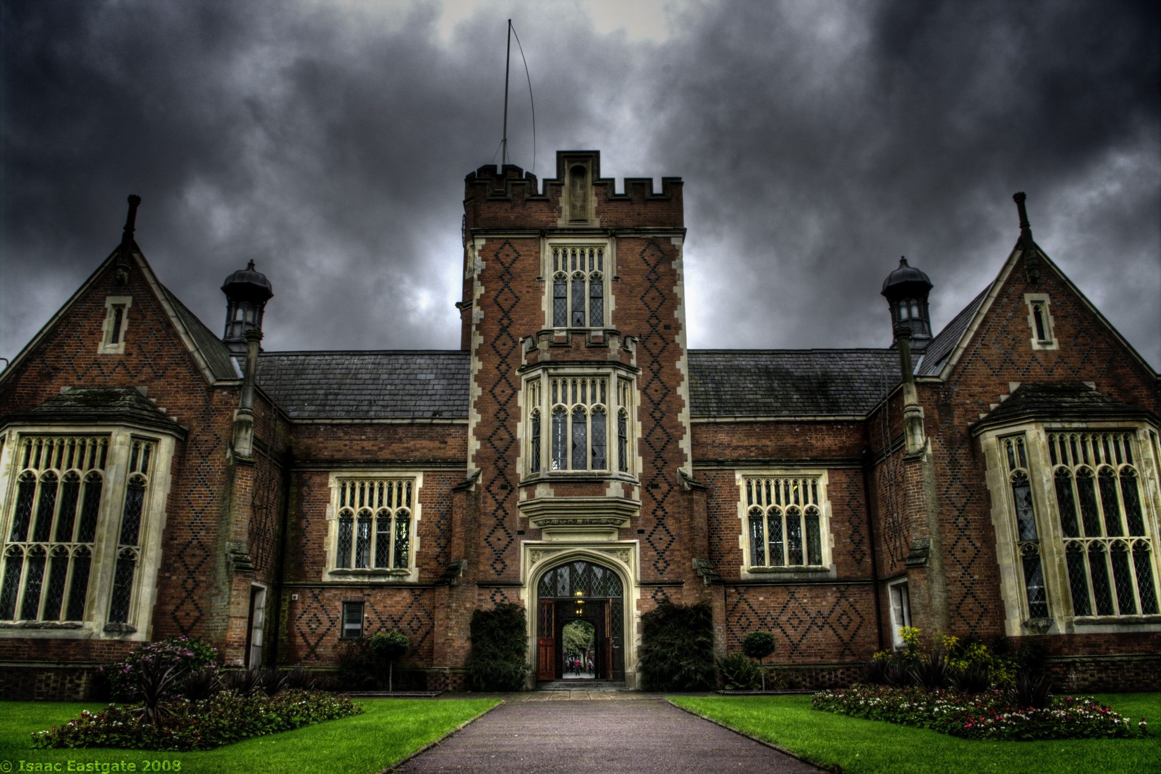 Photo of the loughborough Grammar School tower block, the most iconic building on the loughborough grammar school campus.